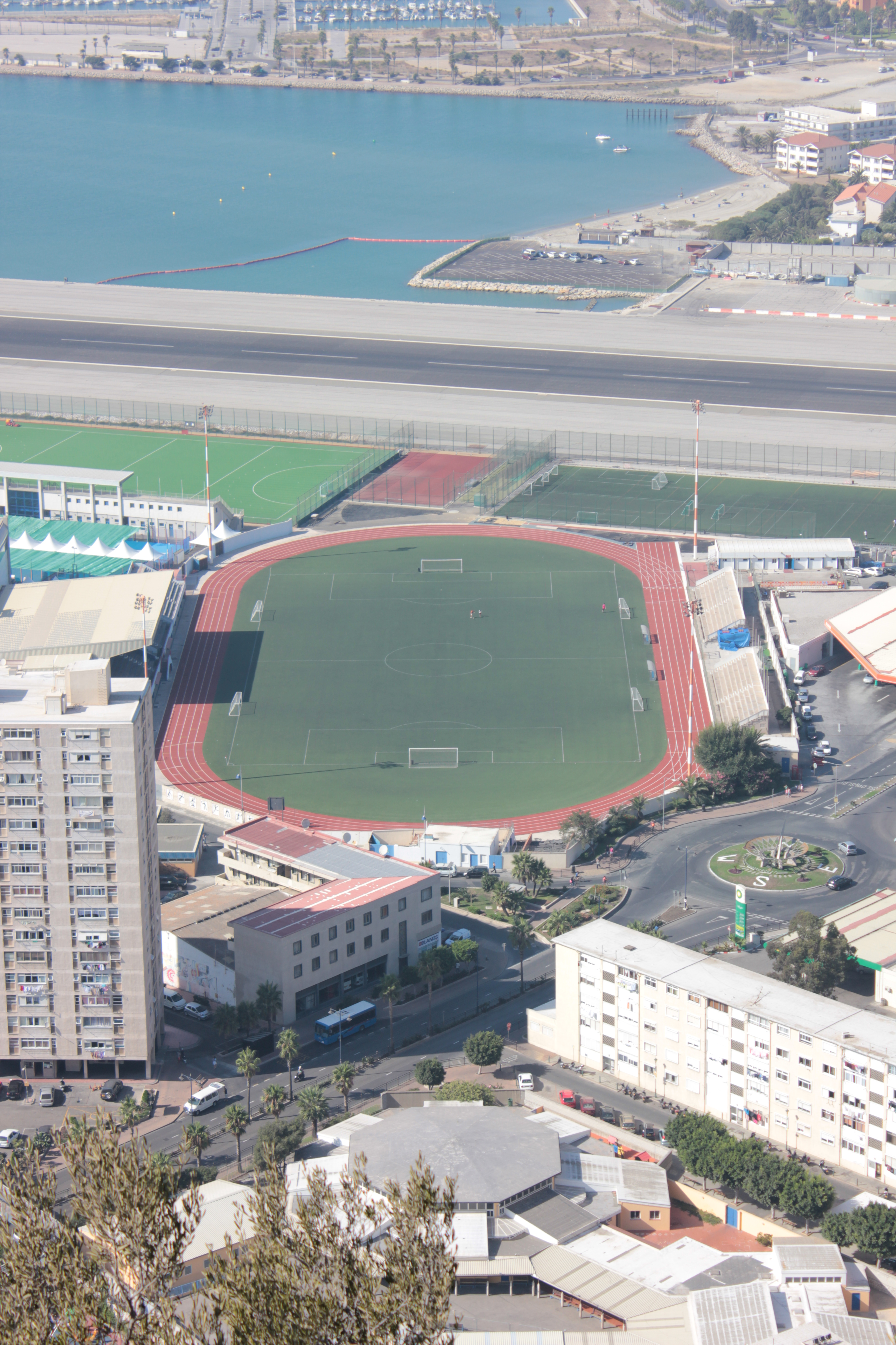 Victoria Stadium, Gibraltar